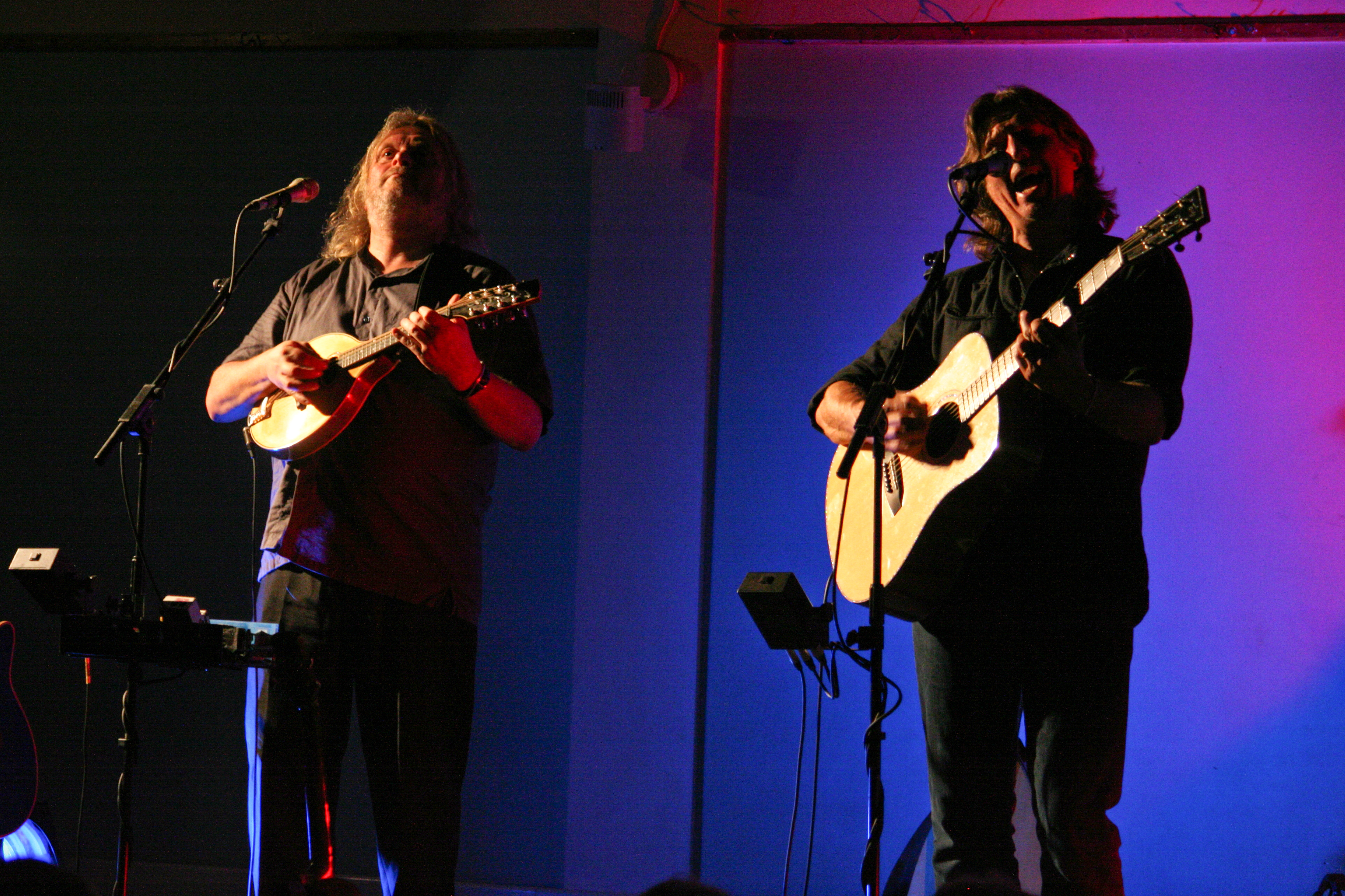 Show of Hands; Harberton Village Hall, Devon, May 20th 2009